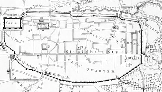 Map of Damascus, 1855. Cropped: Old City